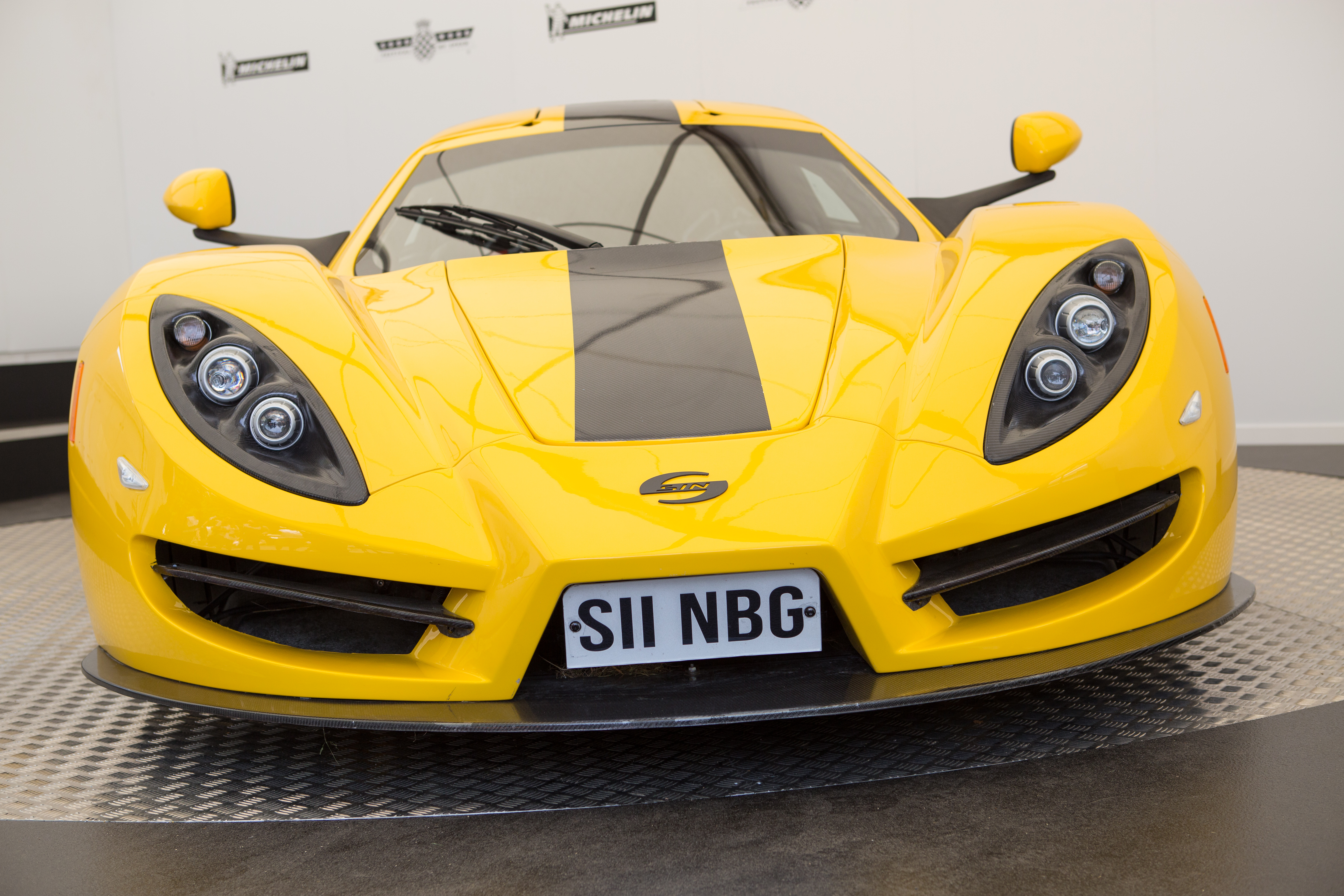 The Sin R1 at the 2014 Goodwood Festival of Speed.